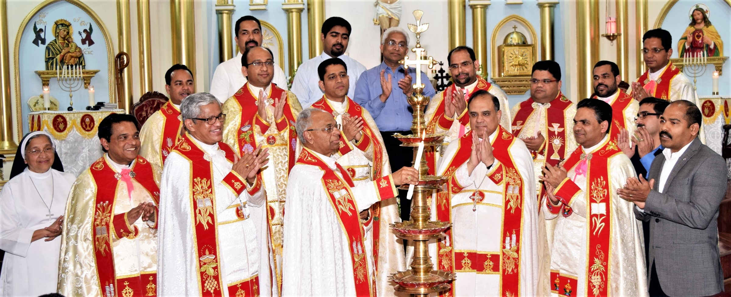 on March 22, 2015.